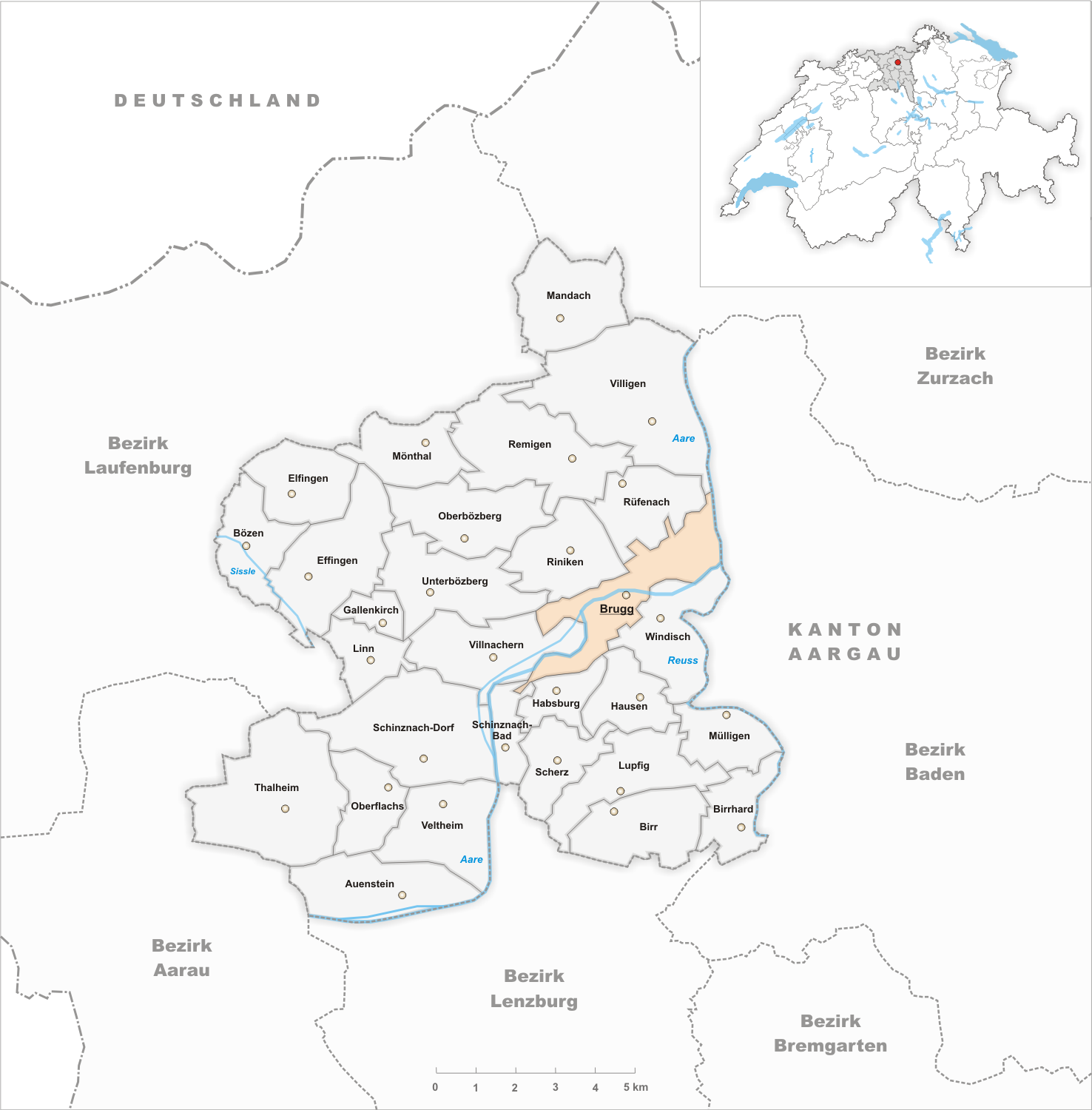 Municipality Brugg